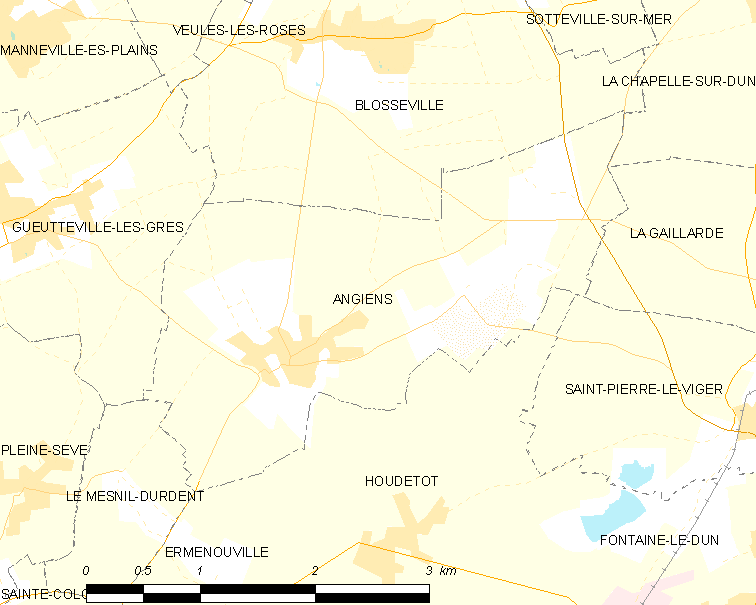 Map of French municipality Angiens